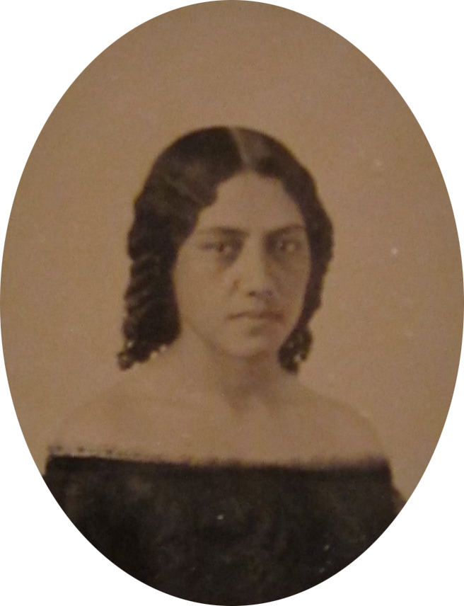 Ambrotype of Elizabeth Kekaʻaniau Laʻanui Pratt, c. 1859, Honolulu Museum of Art, accession 19407